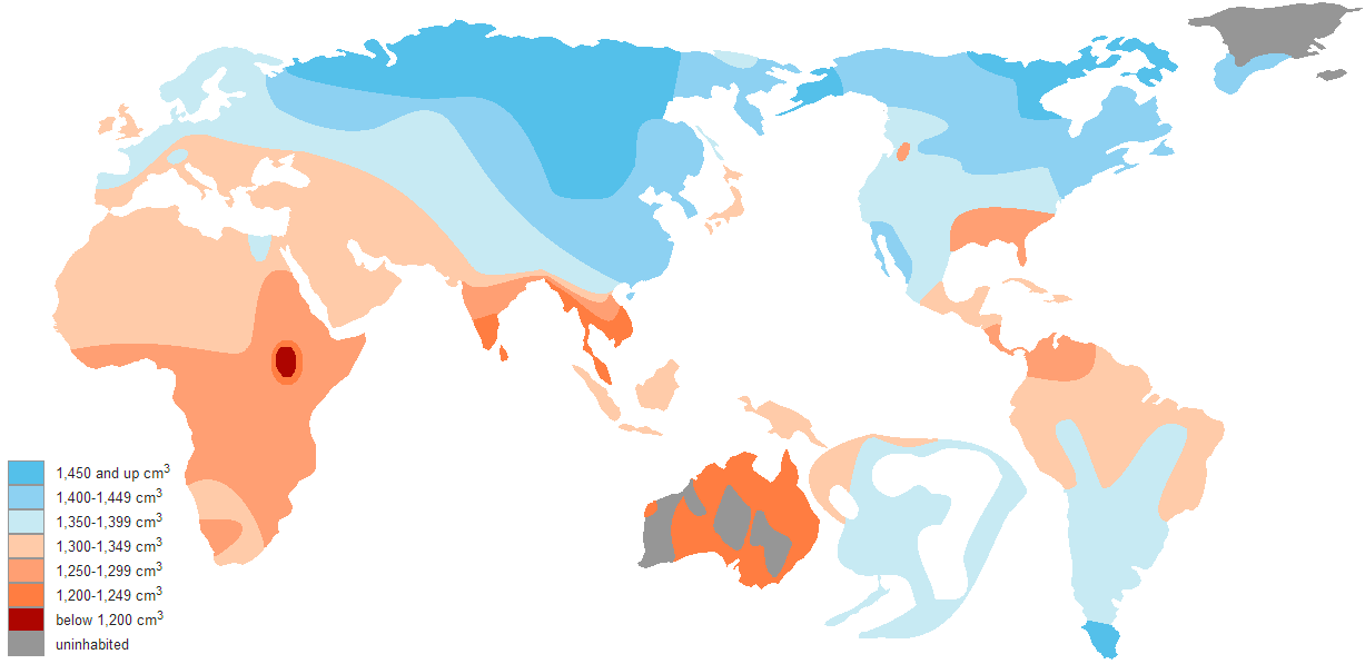 Map over variation in cranial capacity in modern humans